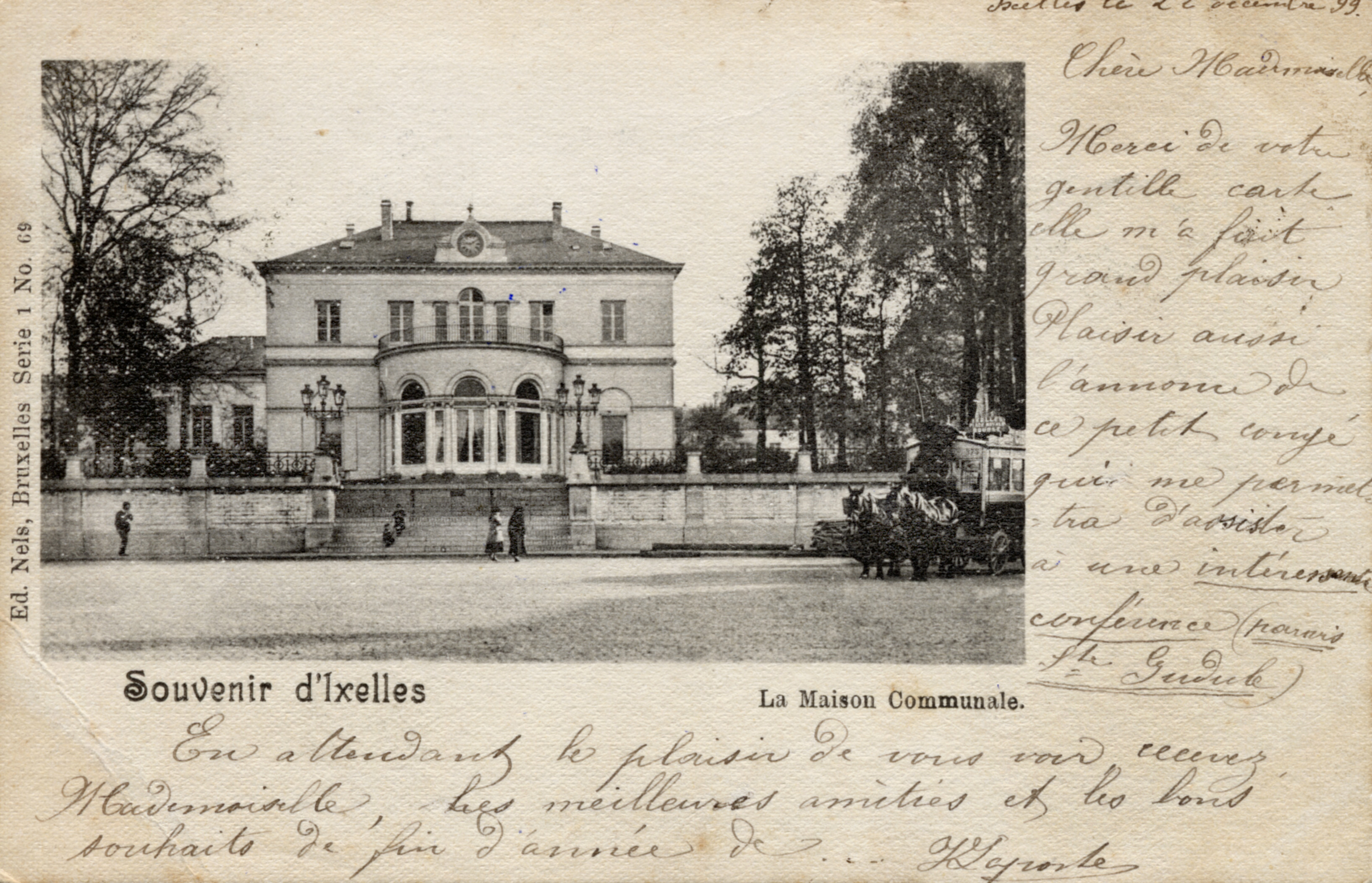 Malibran'hotel-city hall of Ixelles-Brussels